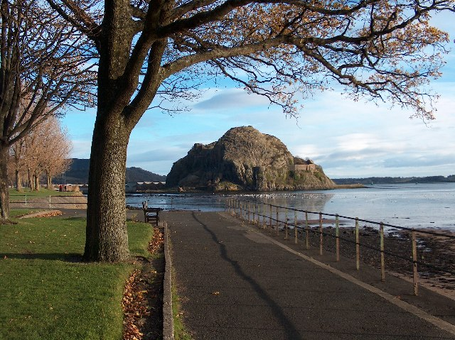 Dumbarton Rock from Levengrove Park. The volcanic plug of Dumbarton Rock and its castle seen from Levengrove Park, Dumbarton, across the mouth of River Leven where it joins the River Clyde.